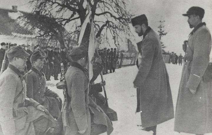 Official oath of partisans- soldiers of 27th Home Army Infantry Division, Volhynia winter 1944